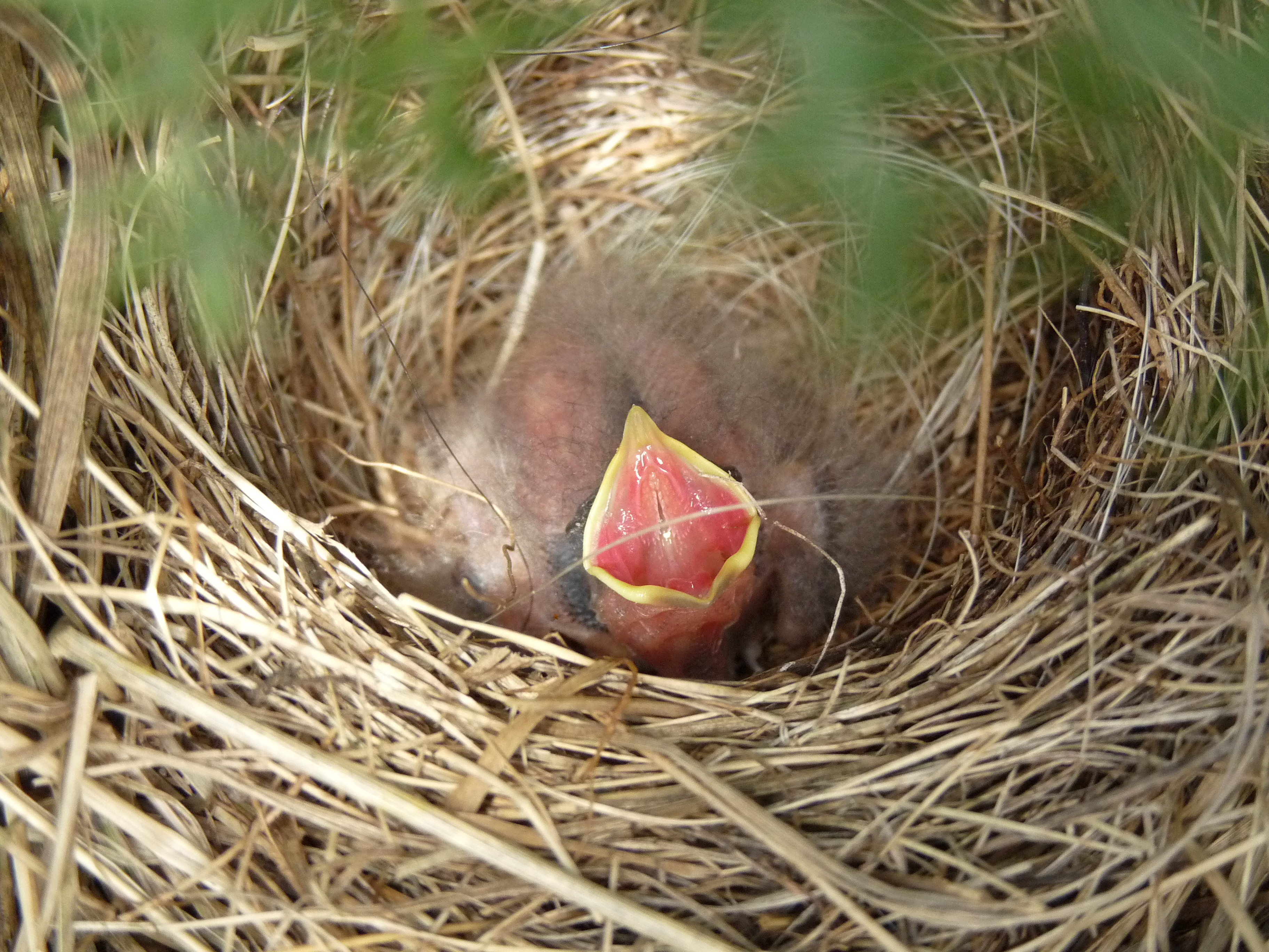 The nest i found on the 10th has only 1 chick. Wonder what has happened to the... Latin name Emberiza citrinella Family Buntings (Emberizidae) Overview ... Where to see them Found across the UK but are least abundant in the north and west, and absent... When to see them All year round What they eat Seeds and insects